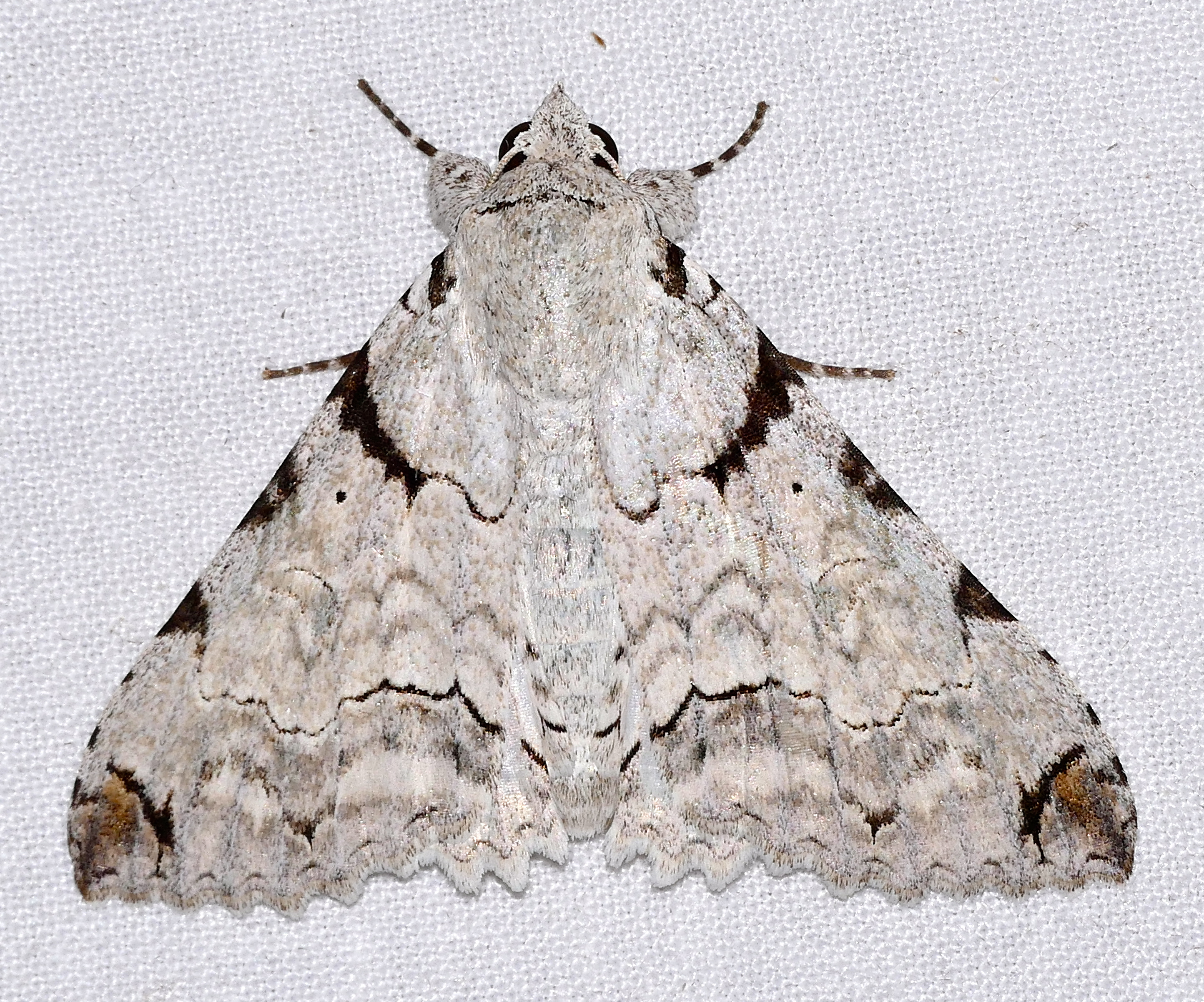 D6 Route de Kaw, Roura, French Guyana, FRANCE